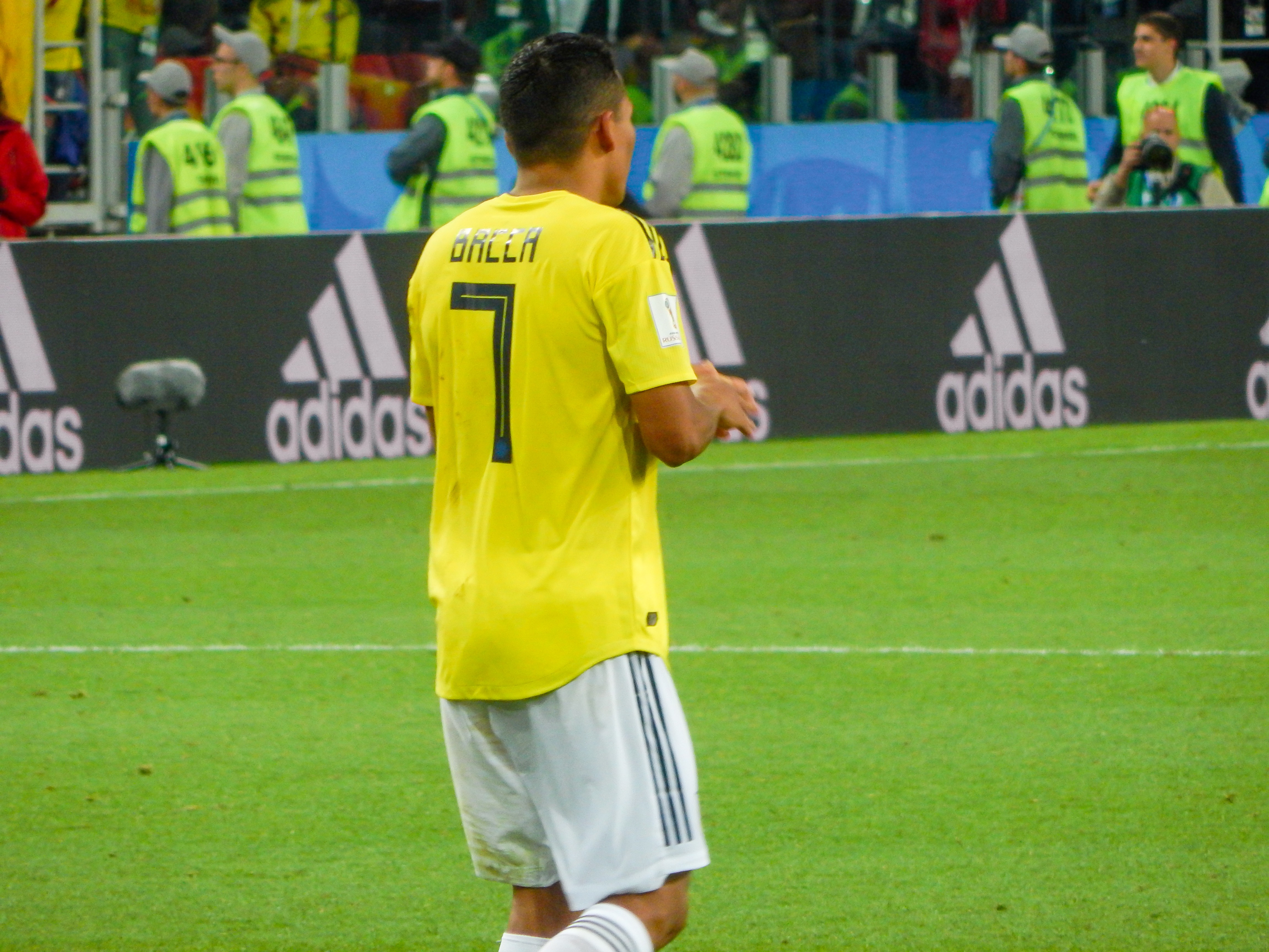 FIFA World Cup 2018, Round of 16, Colombia vs. England. Carlos Bacca after his missed kick at the shoot-out